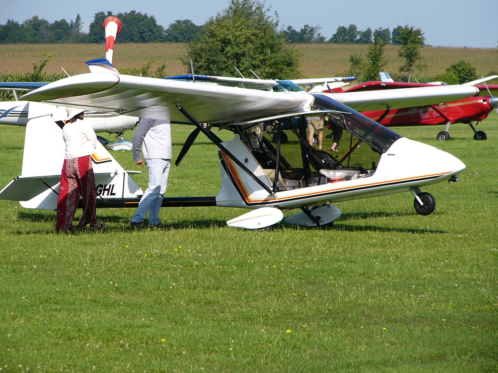 Freedom Lite Skywatch SS-11 at the Alexandria, Ontario, Canada Fly-in